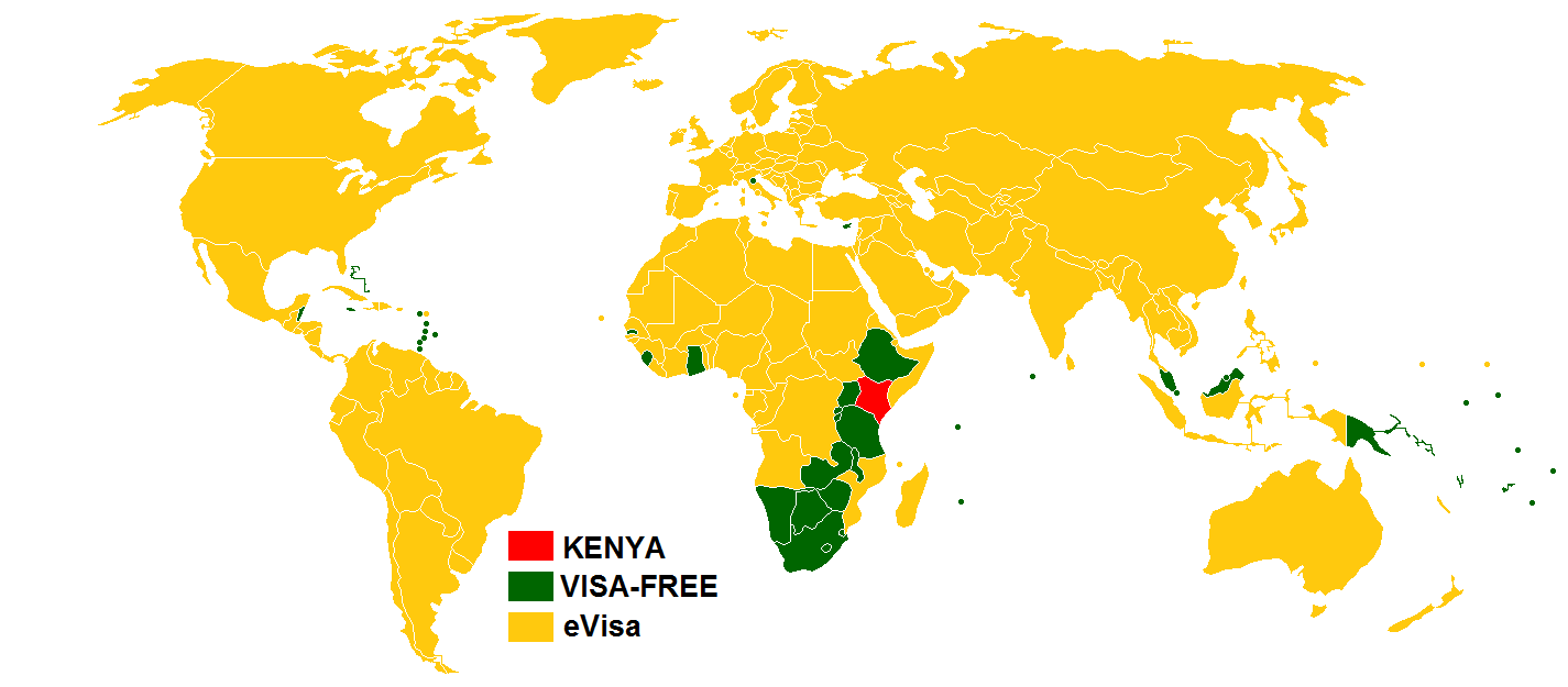 Visa policy of Kenya Kenya Visa-free eVisa or Visa on arrival Visa required